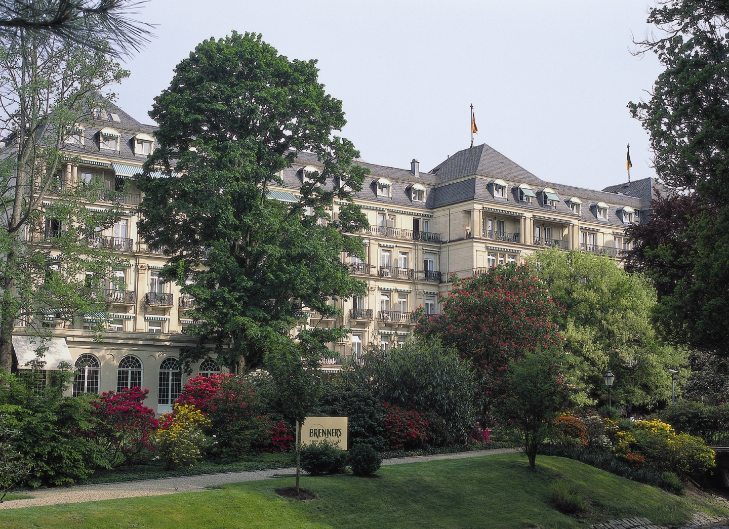 View from the Lichtentaler Allee on the Brenners Park-Hotel & Spa